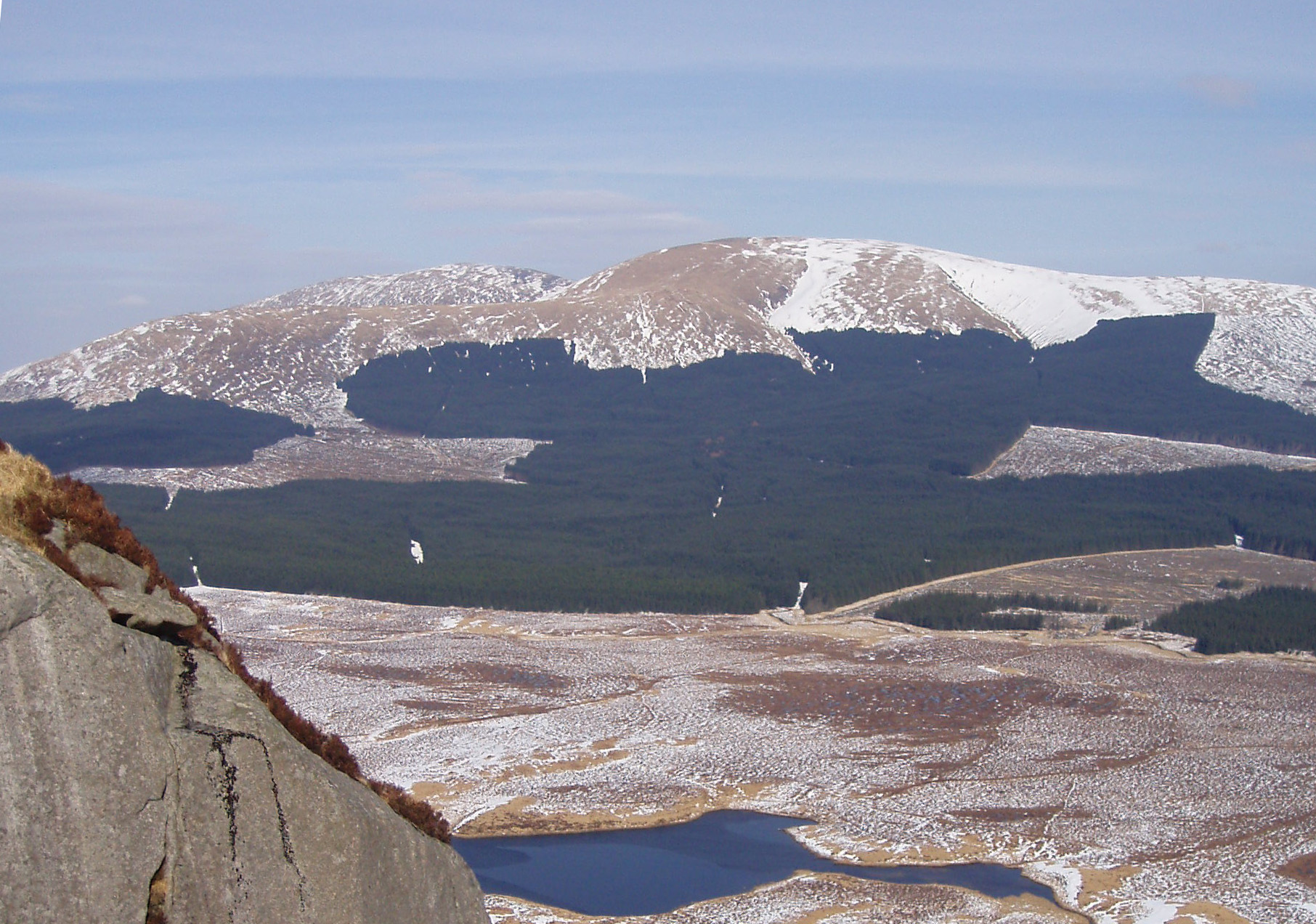 Rhinns of Kells from Craignaw. I took this photo and own the copyright